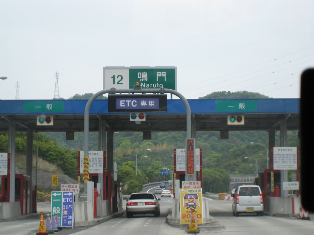 Sign Of Naruto Toll Gate